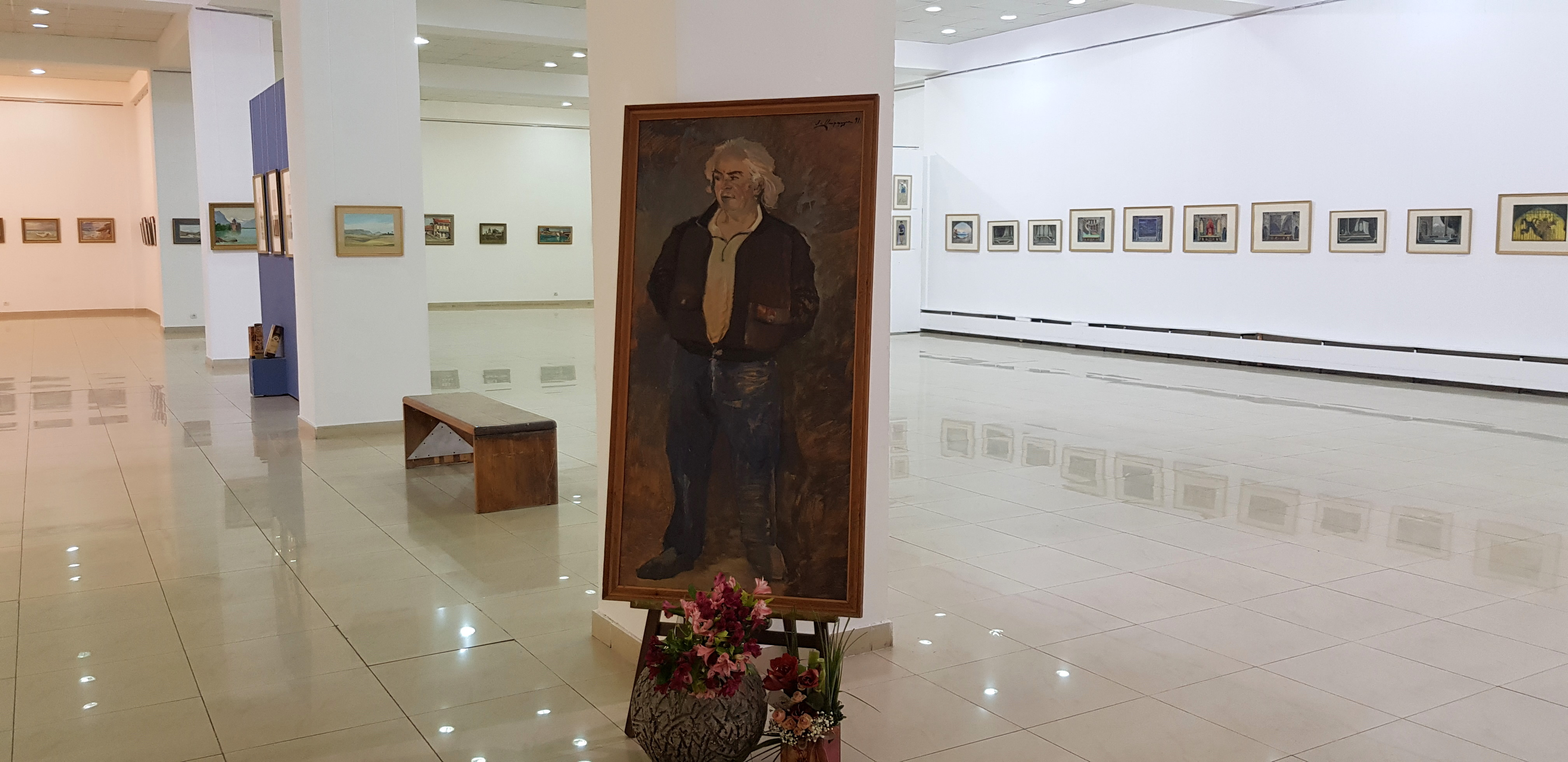 Exhibition devoted to the 95 anniversary of Lenos - Levon Nalbandyan at Artists Union of Armenia